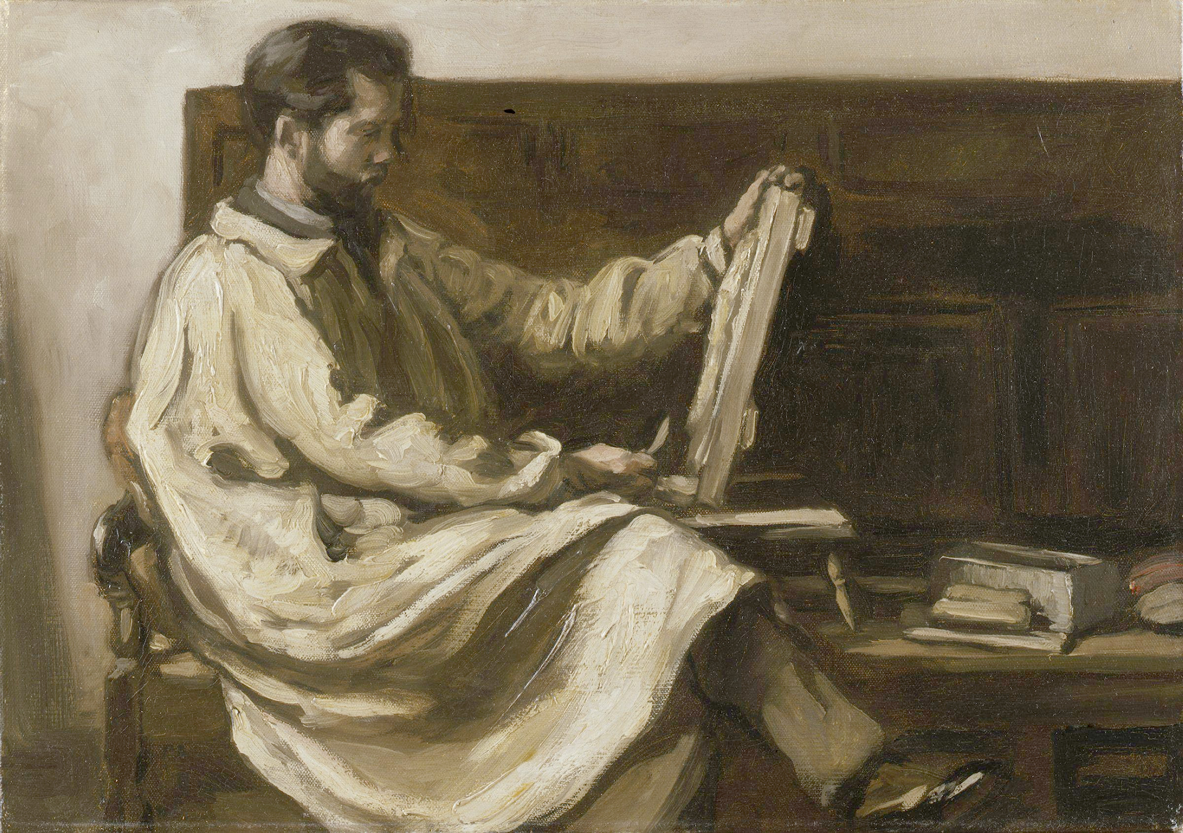 Charles Holden, by Benjamin Nelson (died 1922), given to the National Portrait Gallery, London in 2007. All images in this batch have been confirmed as author died before 1939 according to the official death date listed by the NPG.